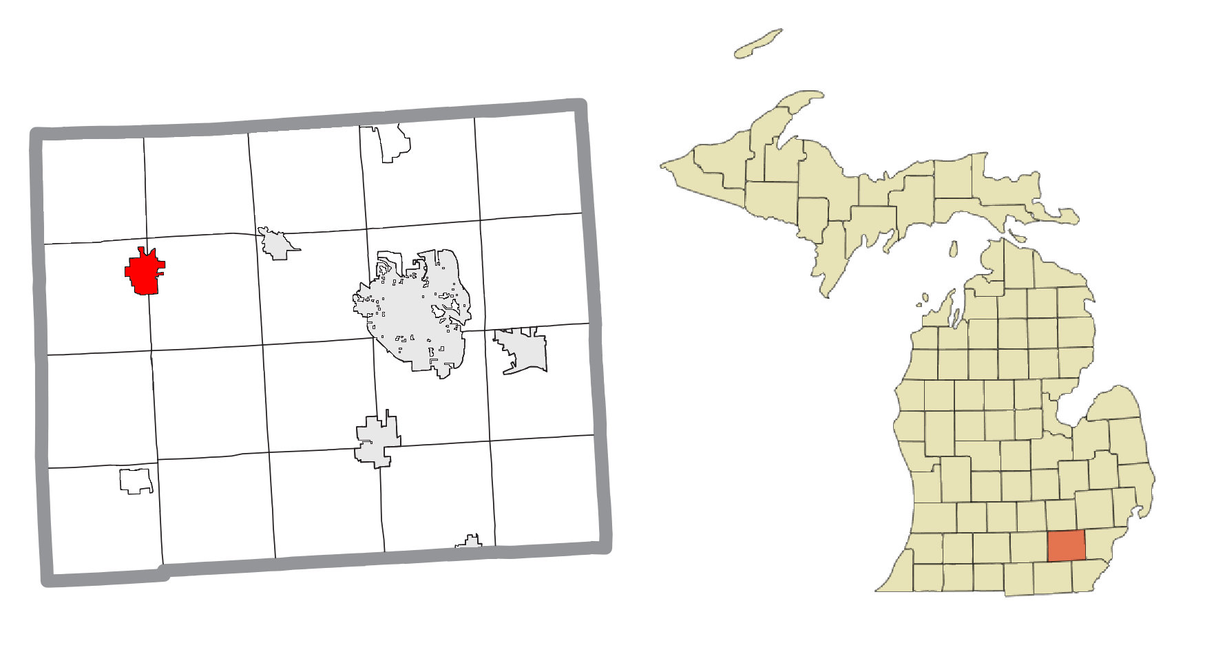 Chelsea, MI